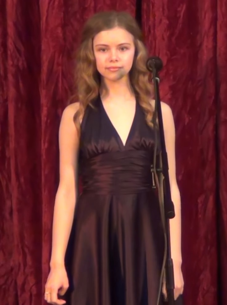 Ukrainian singer Mariia Kondratenko also known as Masha Crush preforming at the Children's Music School in Kharkiv, Ukraine in April 2014.